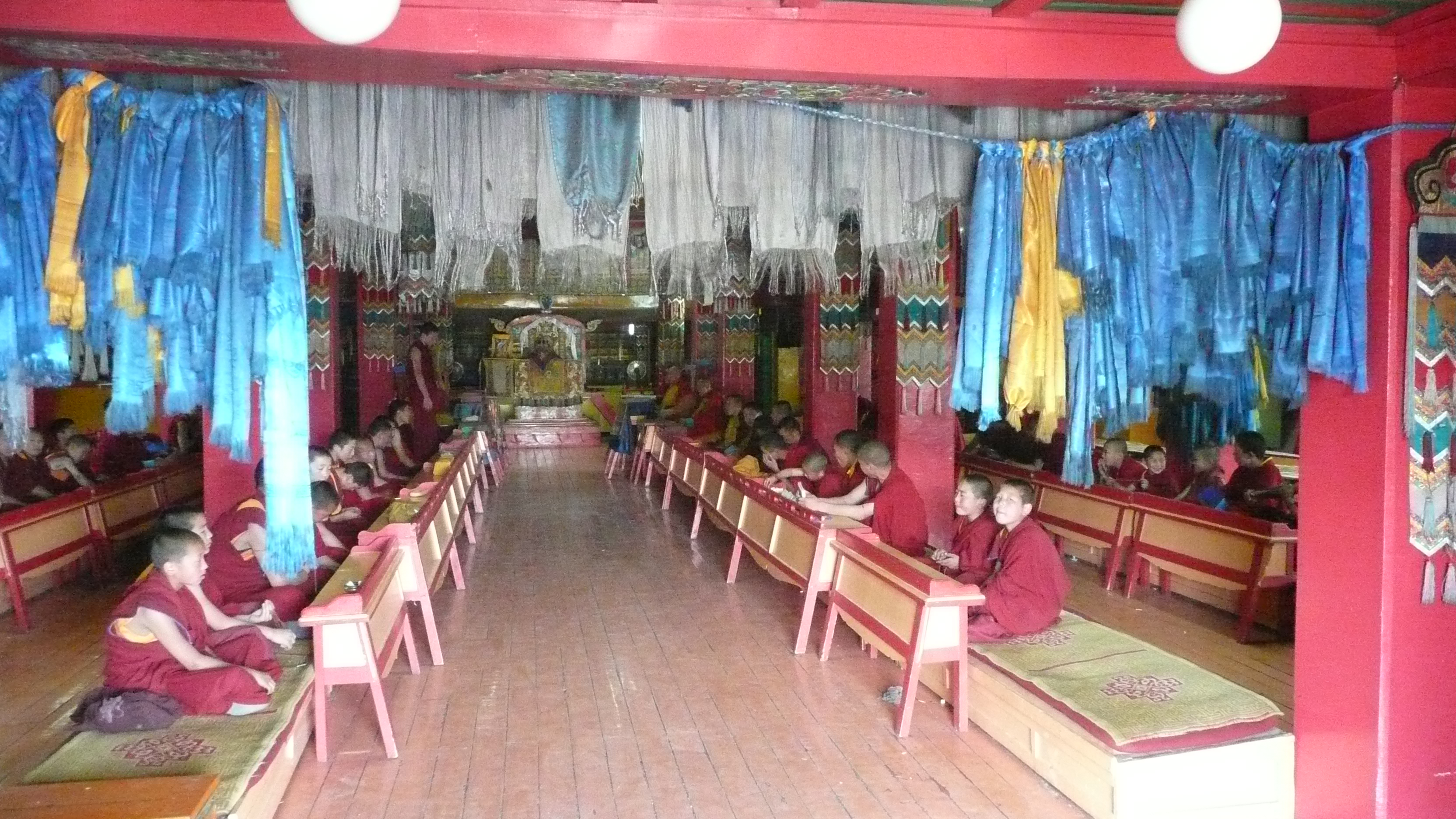 Gandan Monastery in Ulan Bator